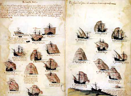 Depiction of the 7th Portuguese India Armada (1505 fleet led by D. Francisco de Almeida) from the Livro das Armadas (Academia de Ciencias de Lisboa)